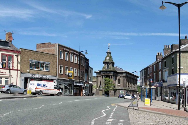 Burslem